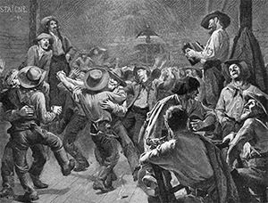 "Miner's Ball," 1891 etching by Andre Castaigne that imagines a men only ball during the 1849 California Gold rush